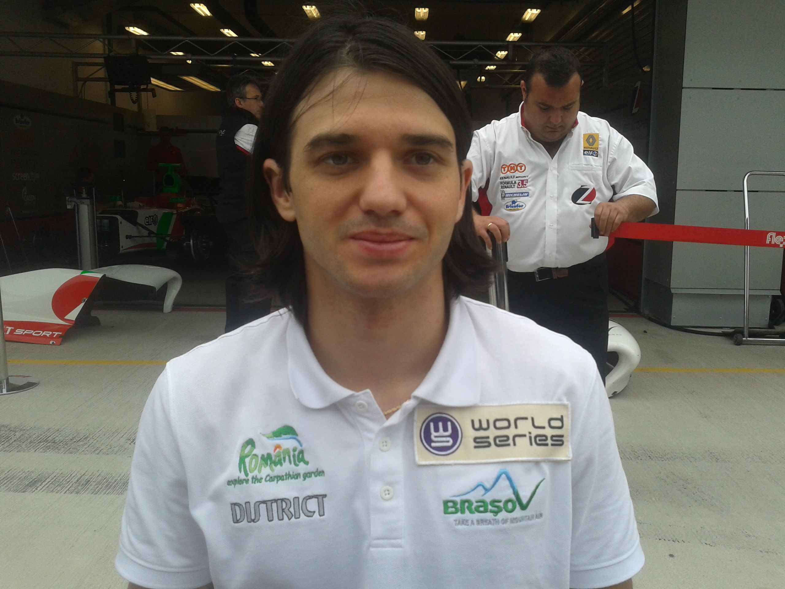 Mihai Marinescu at Moscow Raceway, 22 June 2013